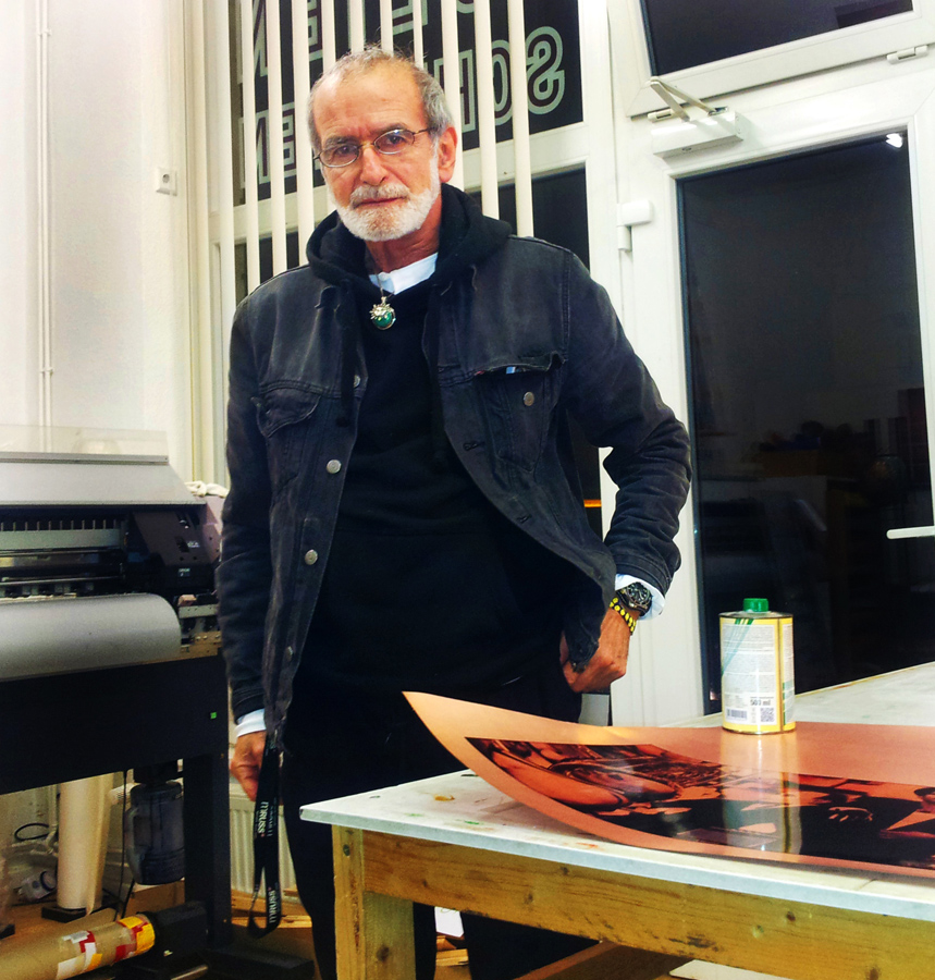 Self portrait Michael A. Russ in printer studio, Hamburg 2017